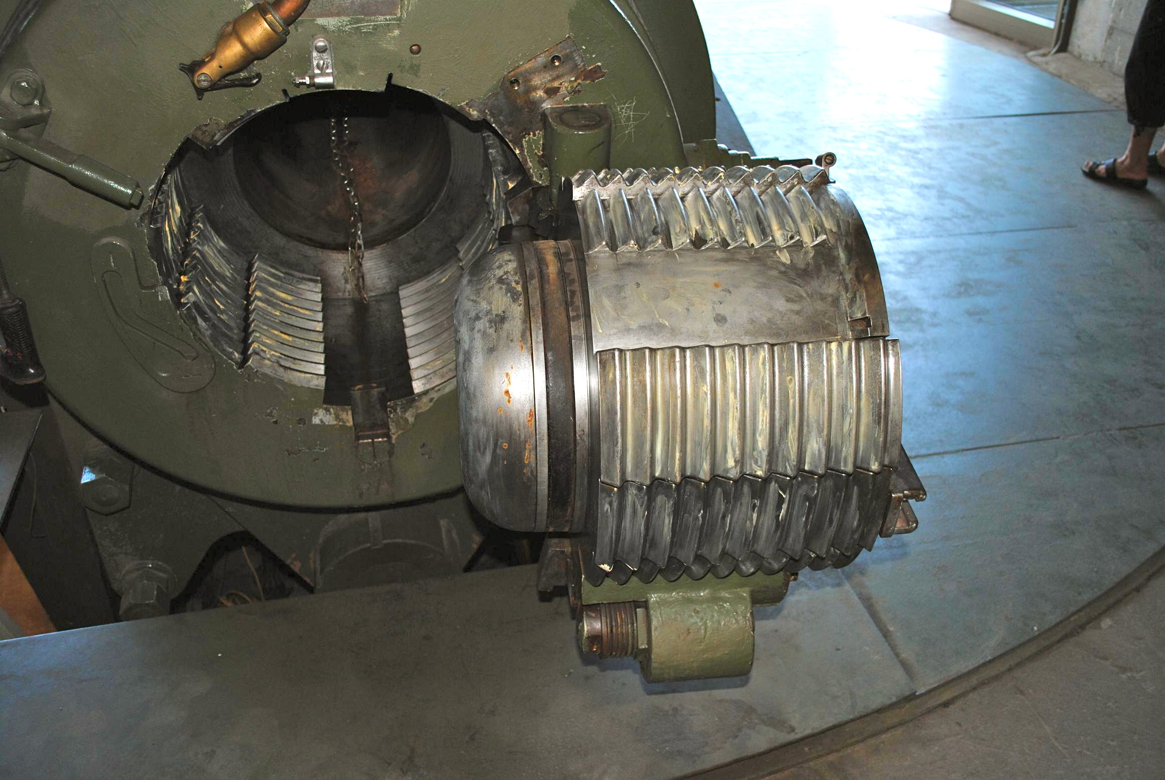 12 inch M1895 M-1 gun, Fort Miles Battery 519, breech view.